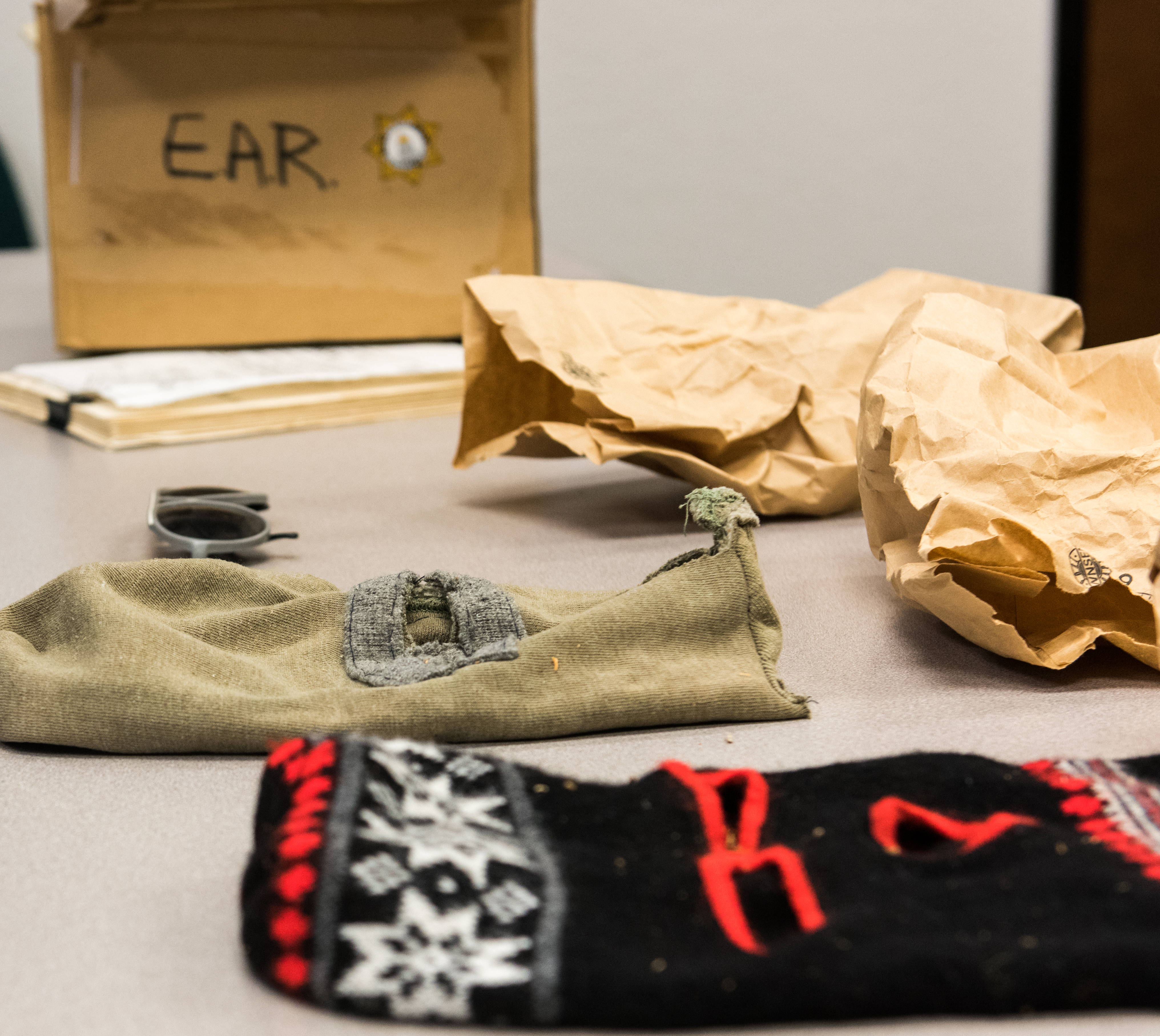 Between 1976 and 1986, the violent and elusive individual known as the East Area Rapist and later as the Original Night Stalker and the Golden State Killer, committed 12 homicides, 45 rapes, and more than 120 residential burglaries in multiple California communities. He often wore ski masks like the ones shown here in evidence at the Sacramento County Sheriff’s Department.